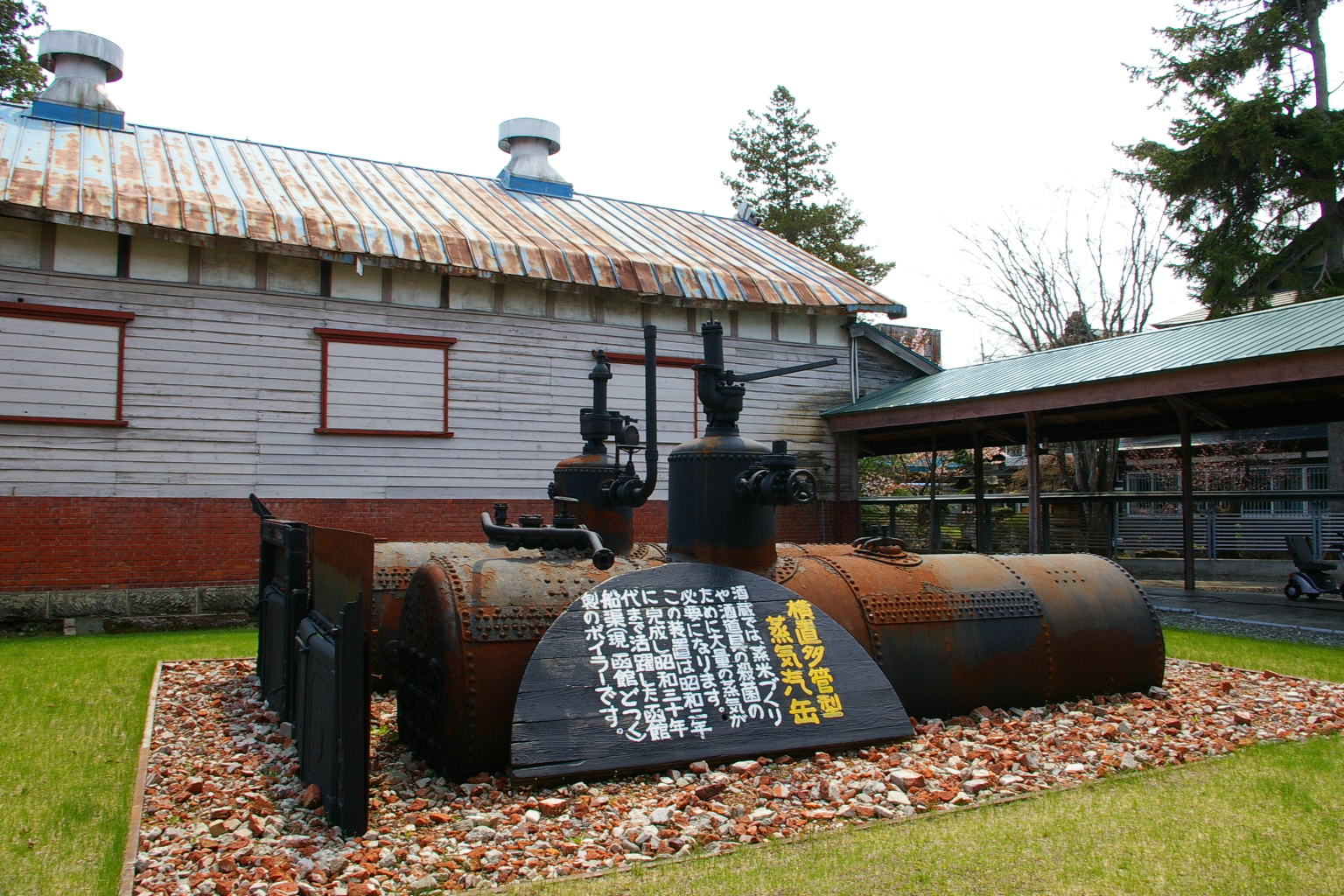 Appearance of the brick building warehouse of Kobayashi brewing which carries out the whereabouts to the Hokkaido Kuriyama town.